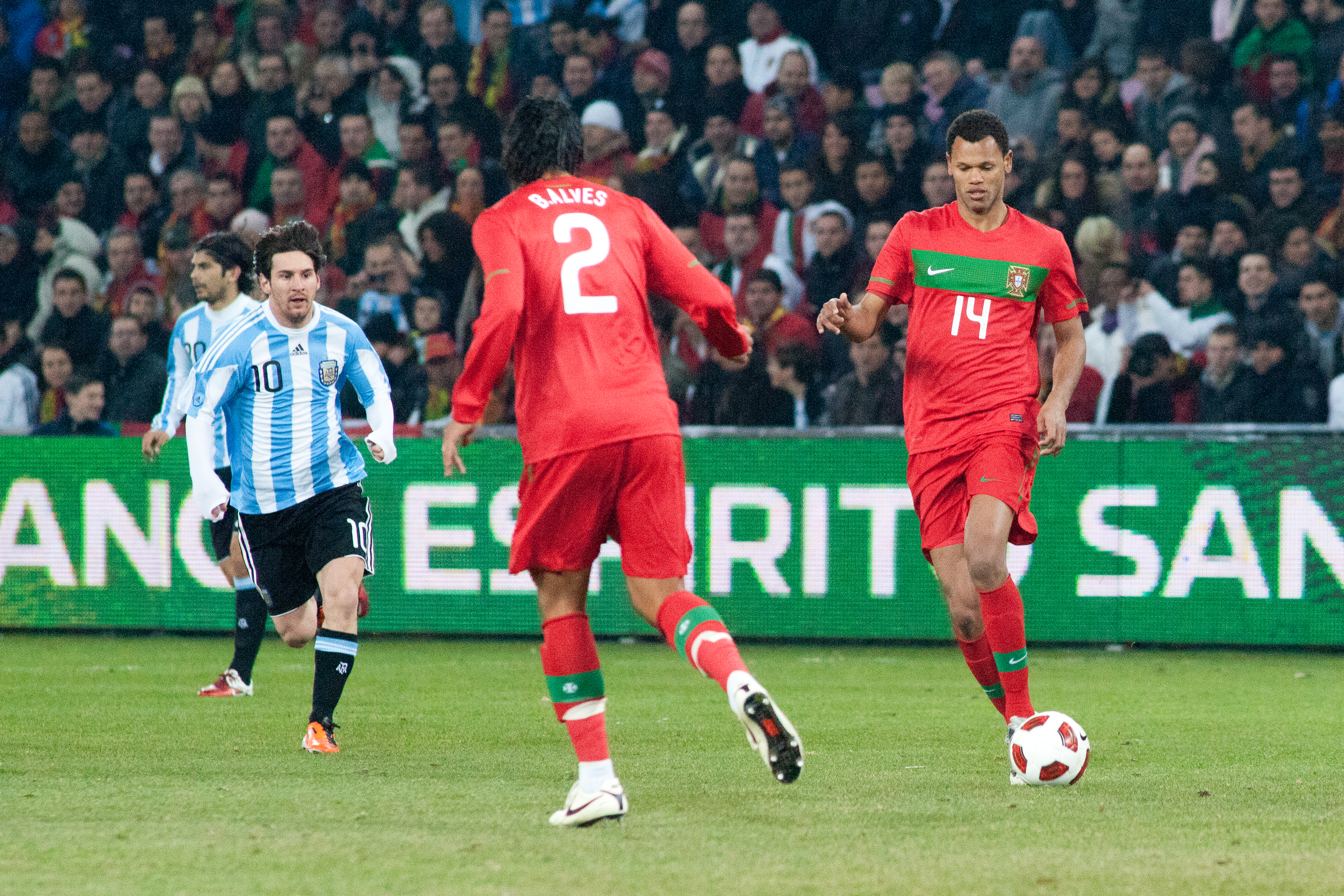 Lionel Messi (left) and Rolando Jorge Pires da Fonseca (right).